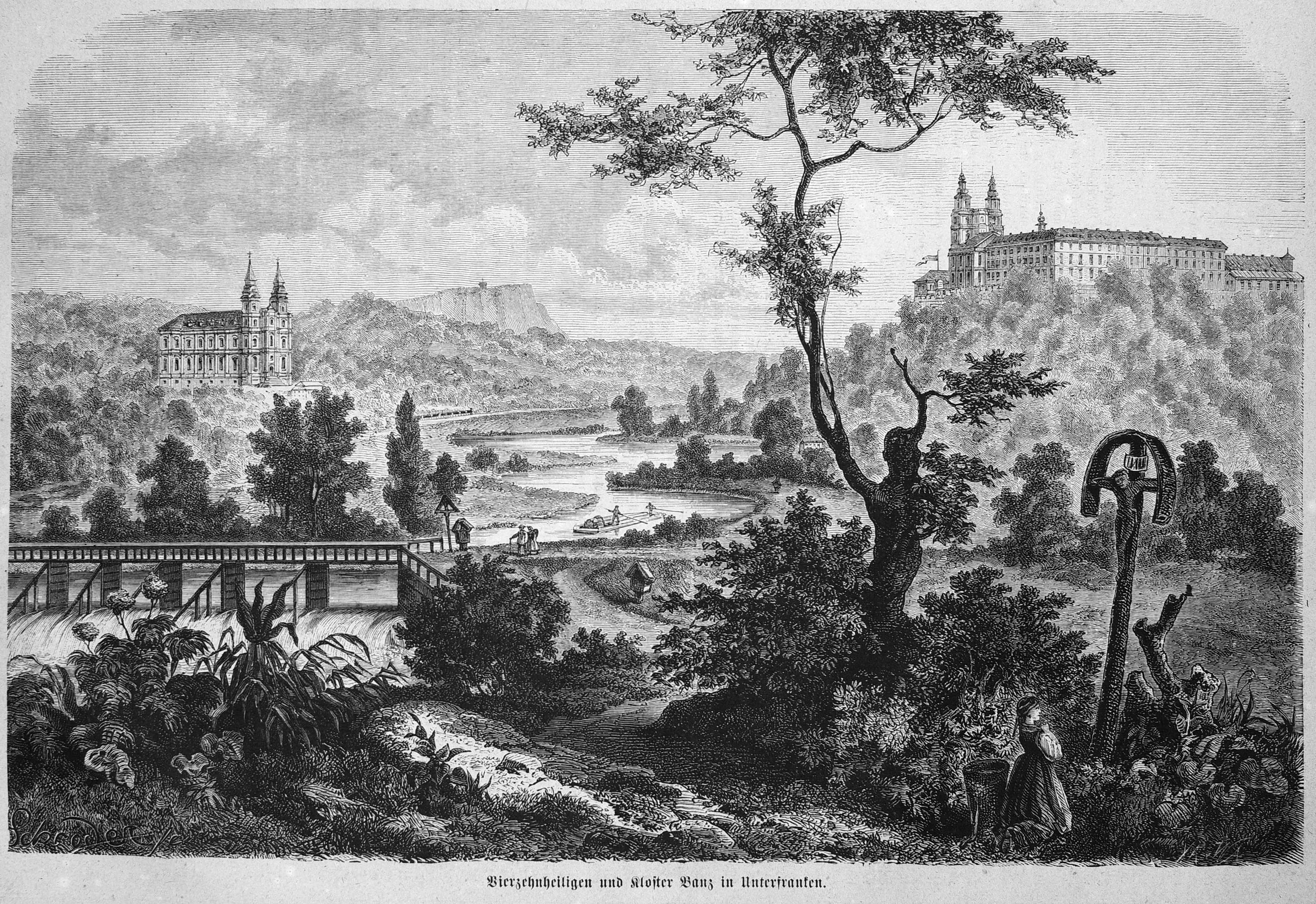 caption: "Vierzehnheiligen und Kloster Banz in Unterfranken."